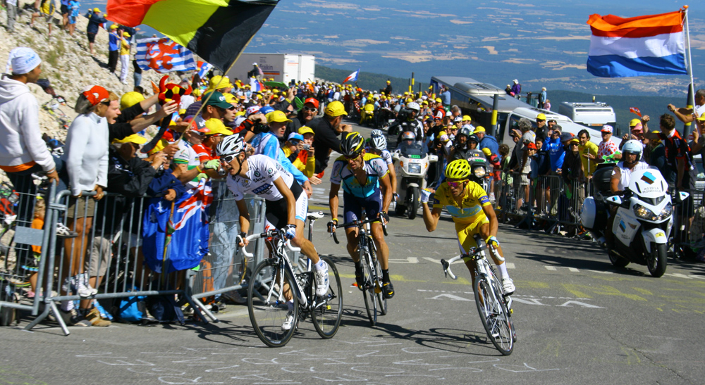 Andy Schleck, Lance Armstrong & Alberto Contador at the last turn of Mt. Ventoux